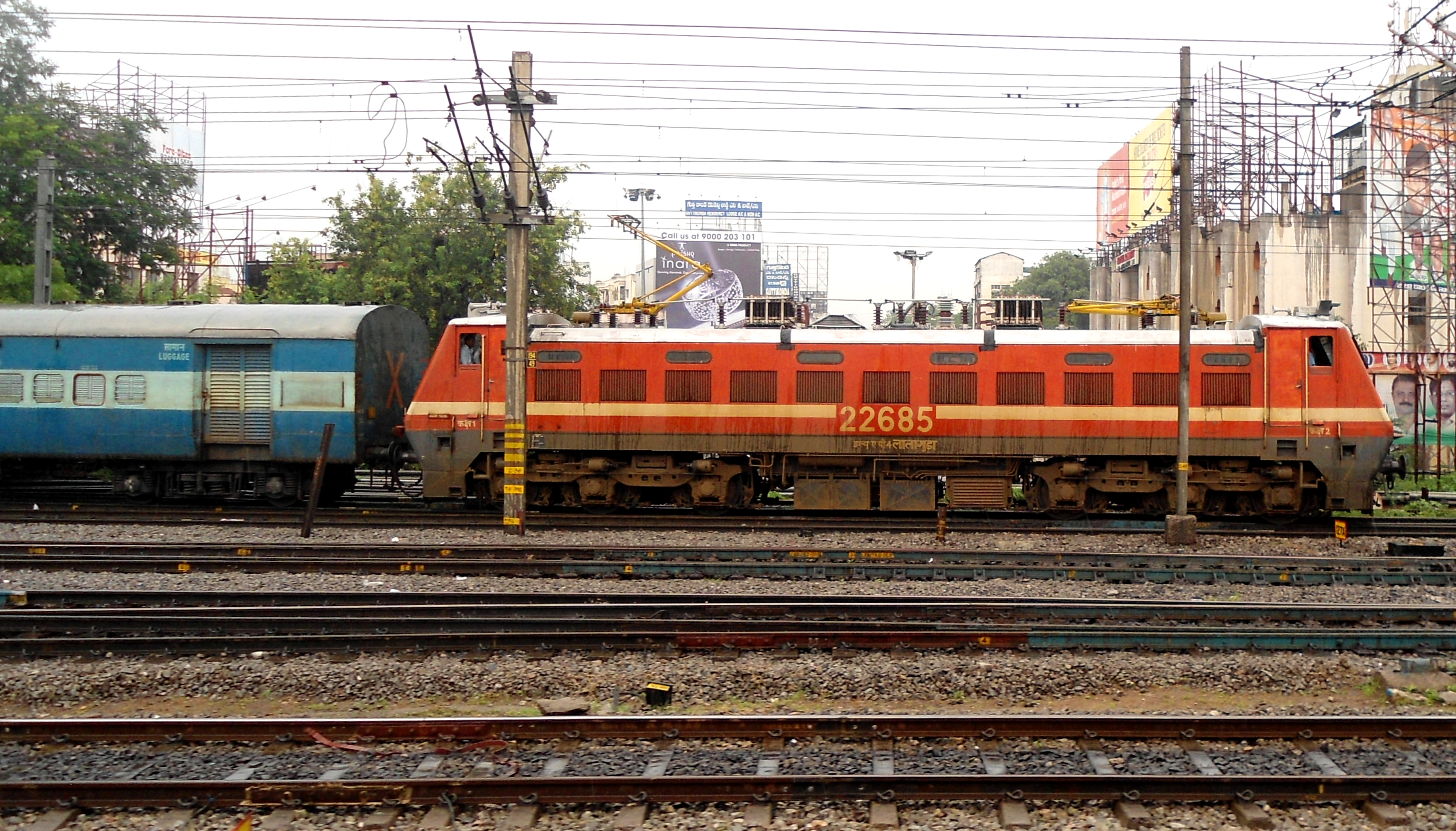 Howrah bound East Coast Express hauled by LGD shed WAP-4 (22685) at Secunderabad railway station